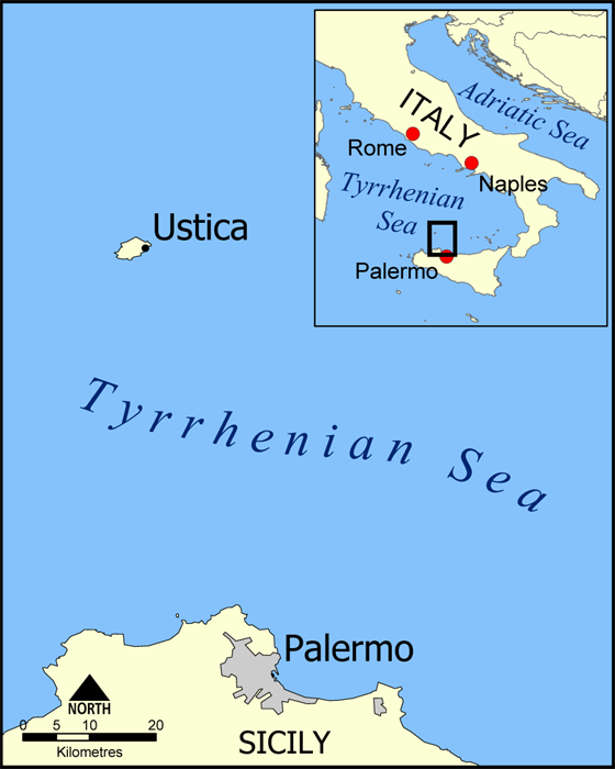 A map showing the location of Ustica, Italy, in the Tyrrhenian Sea in relation to nearby Palermo, Sicily. Blank version available at Image:Ustica blank map.png. Created by NormanEinstein, May 18, 2005.